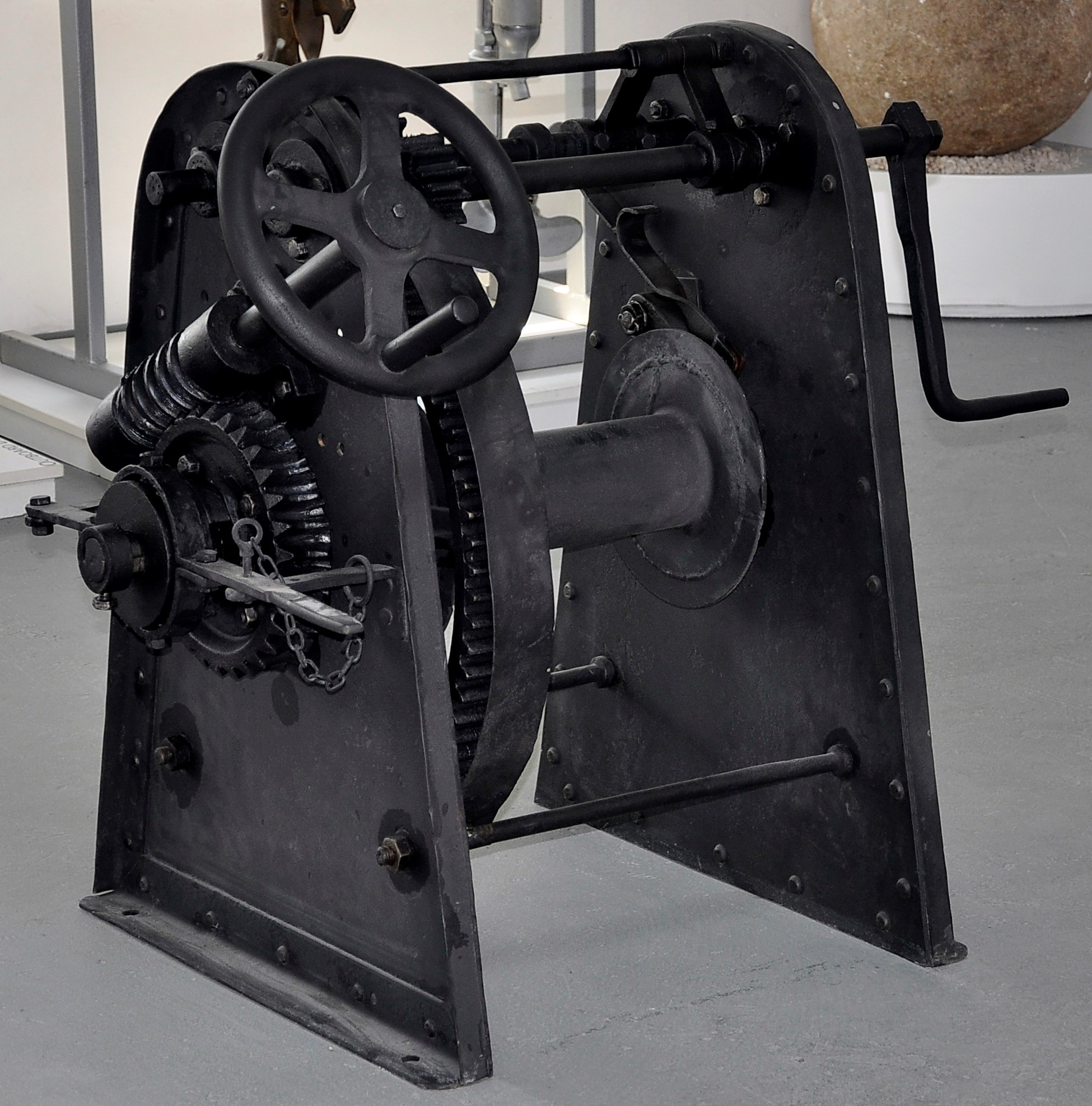 Windlass from ship Matroz, 1925. It is located in Museum of Science and Technology Belgrade.